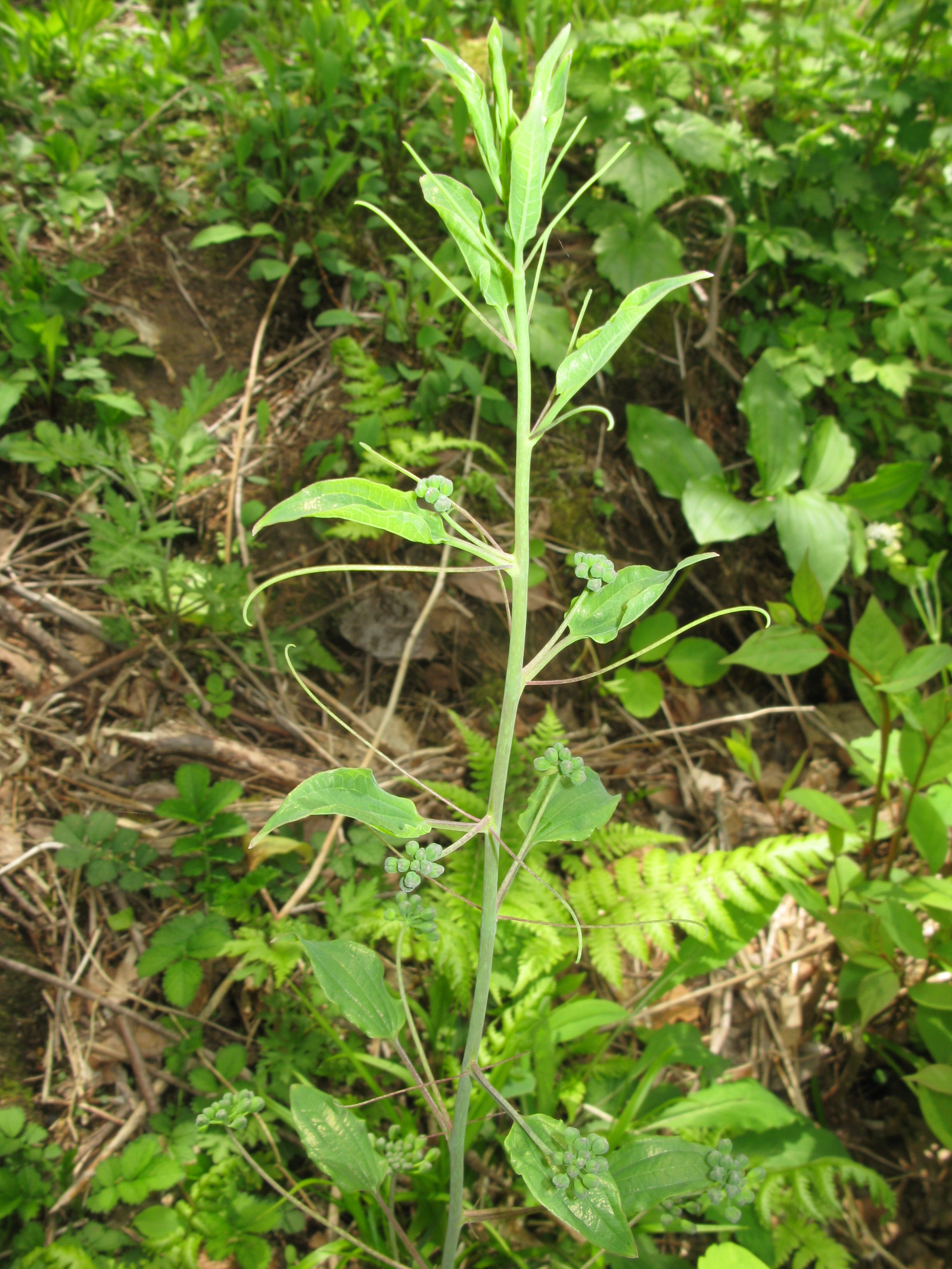 Smilax nipponica, Fukushima city, Fukushima pref., Japan